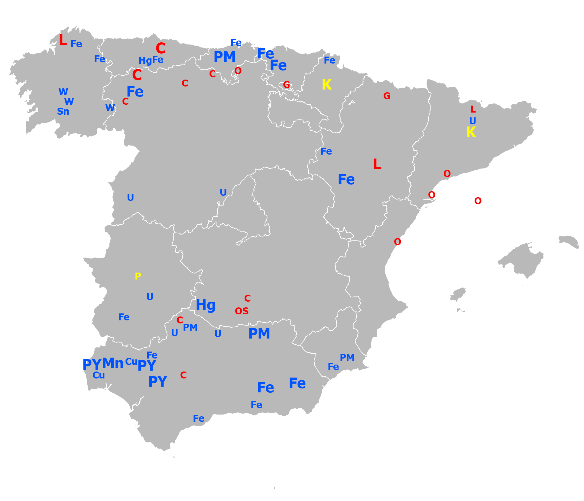 Map depicting natural resources of Spain. Names in blue are metals (Fe, Cu, Sn, Hg, W, U) with PM for polymetals (Pb, Zn and others), PY for pyrite (FeS2), in red are fossil fuels (C — coal, L — lignite, O — oil, G — natural gas, OS — Oil shale), in yellow are non-metallic minerals (K — potash, P — phosphorite). Based on map "Spain and Portugal. Moscow: GUGK SSSR, 1987" (Испания и Португалия. М.: ГУГК СССР, 1987).